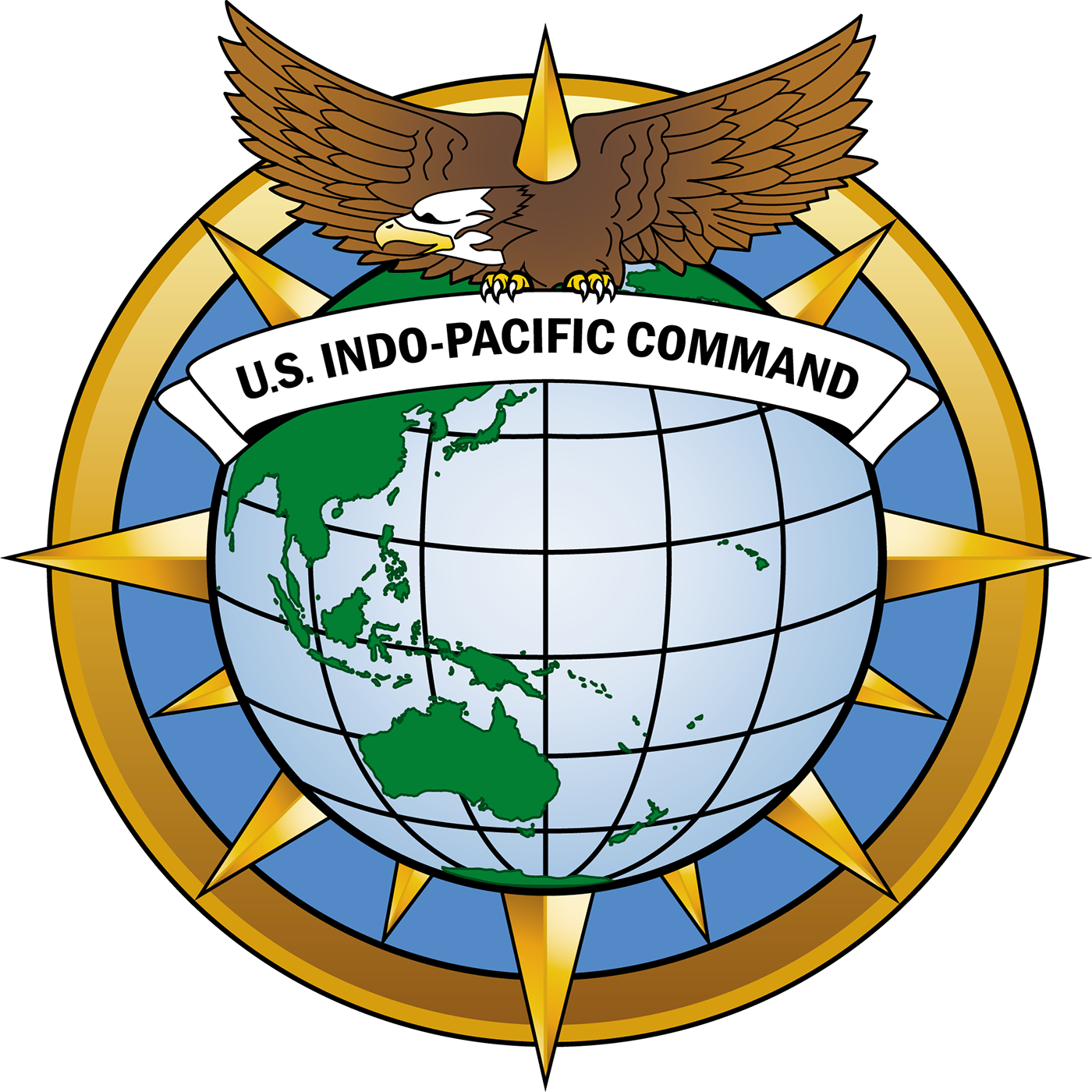 Official Seal of the U.S. Indo-Pacific Command